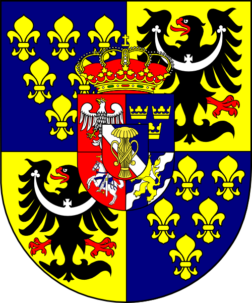 Coat of arms (shield only) of Karol Ferdynand Waza (Karl Ferdinand Wasa), bishop of Wrocław, Poland (1625 - 1655), bishop of Płock, Poland (1644 - 1655).